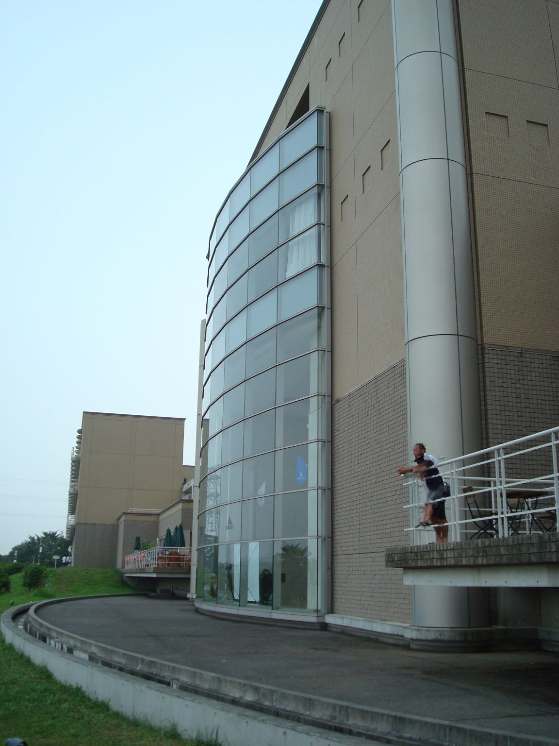 J-Village's "center house"; the headquarters of J-Village national training center, hotel and restaurants for athletes, and shop for visitors. Placed at Naraha, Fukushima, Japan.